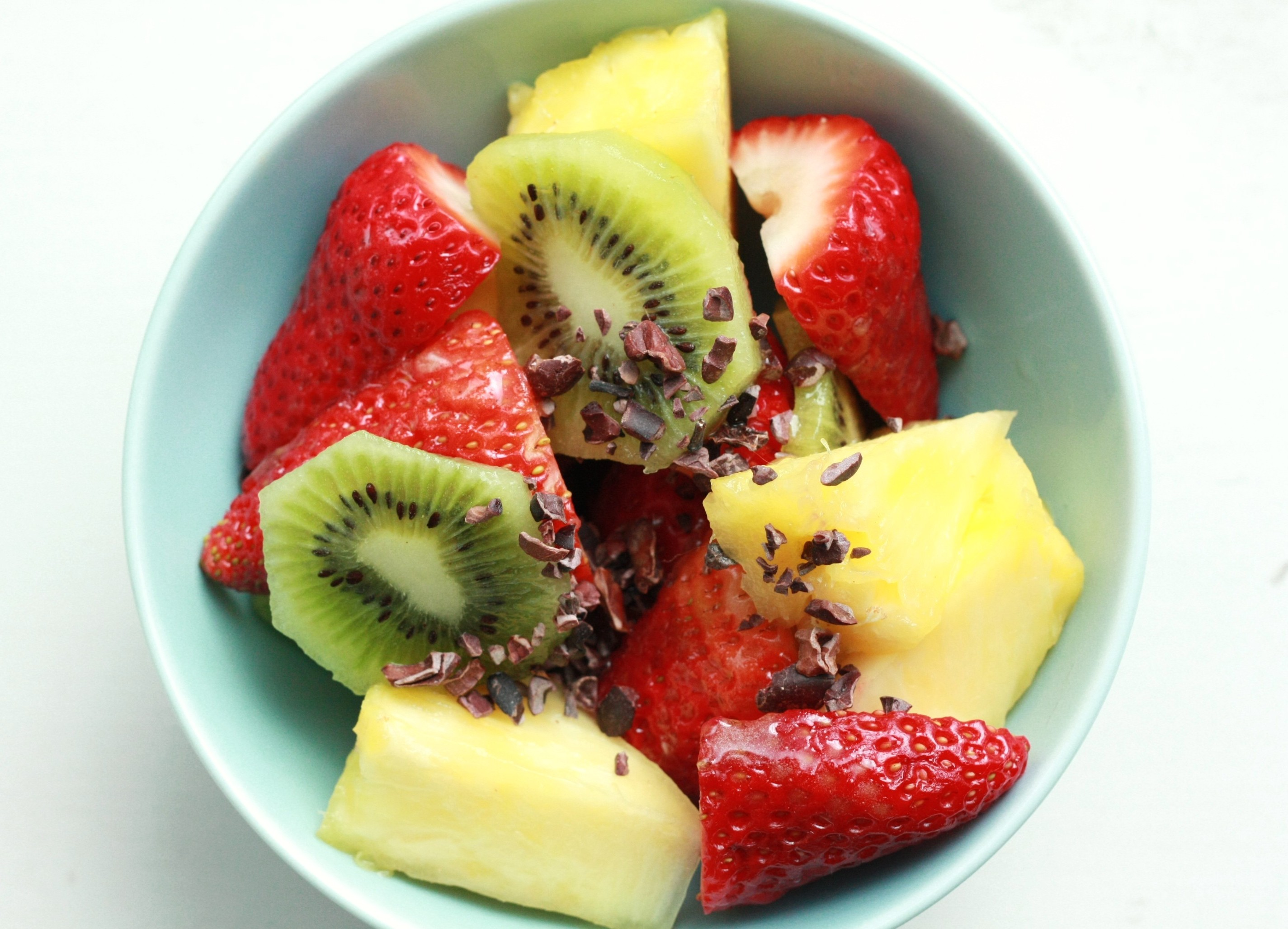 Fruit Salad with Cacao Nibs